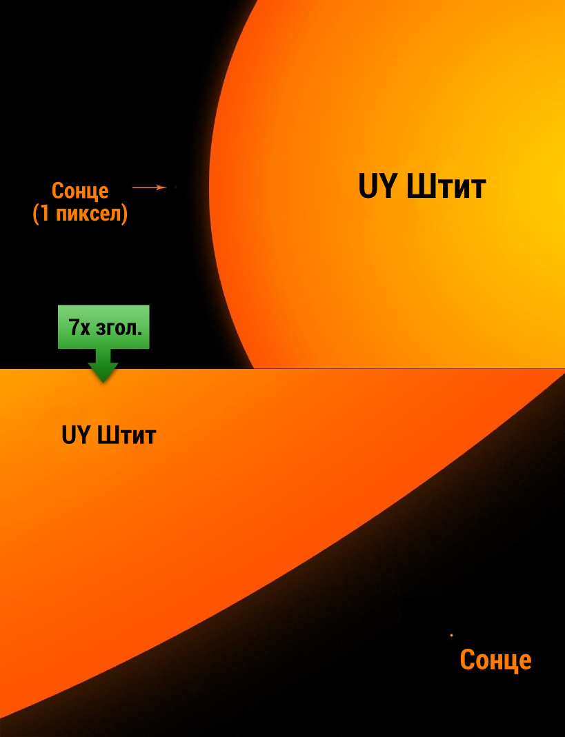 Size of the star UY Scuti compared to the Sun, with lables in Macedonian.